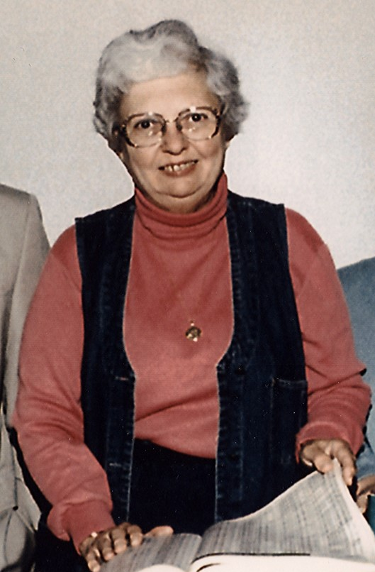 Jeanne Vertefeuille of the Central Intelligence Agency team that discovered Soviet mole Aldrich Ames.